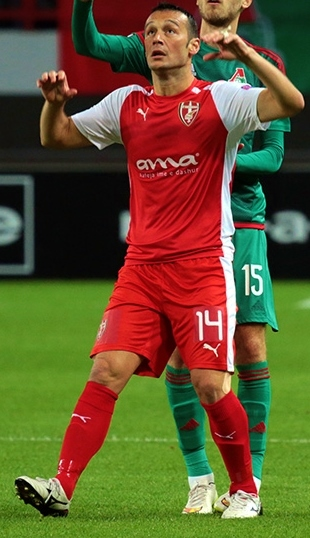 Hamdi Salihi